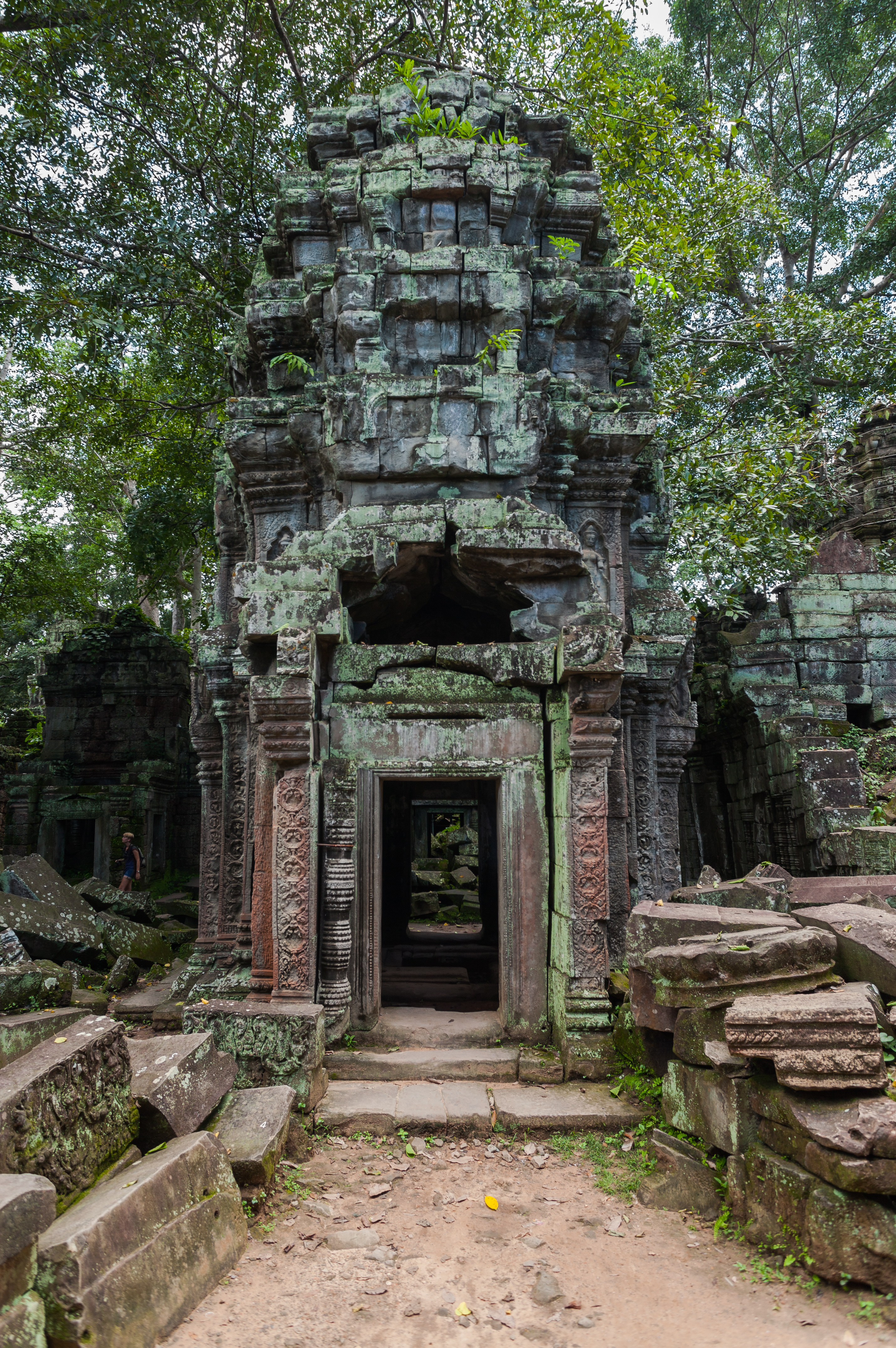 Ta Phrom, Angkor, Cambodia